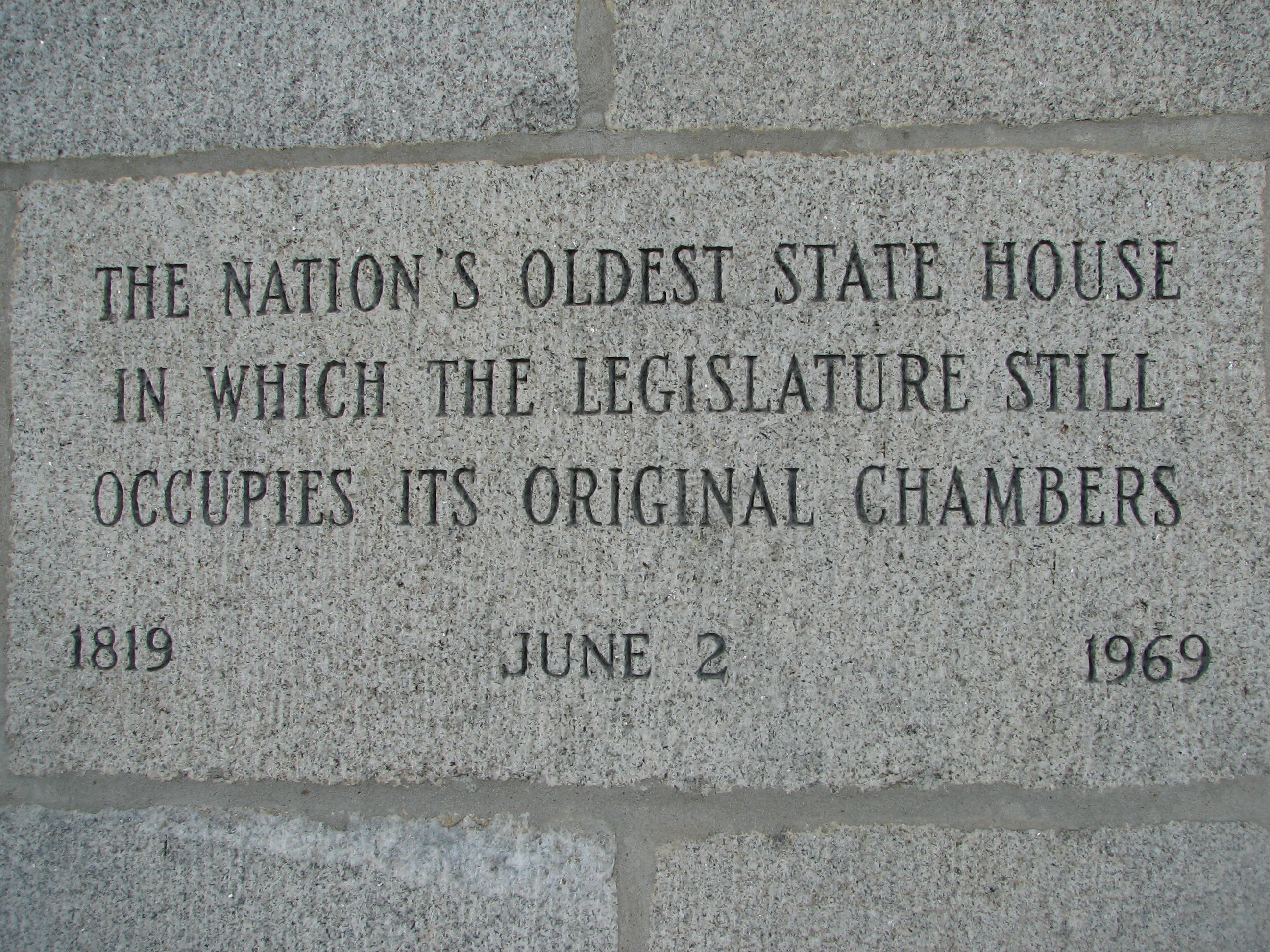 Taken by Hossen27 at the New Hampshire State House